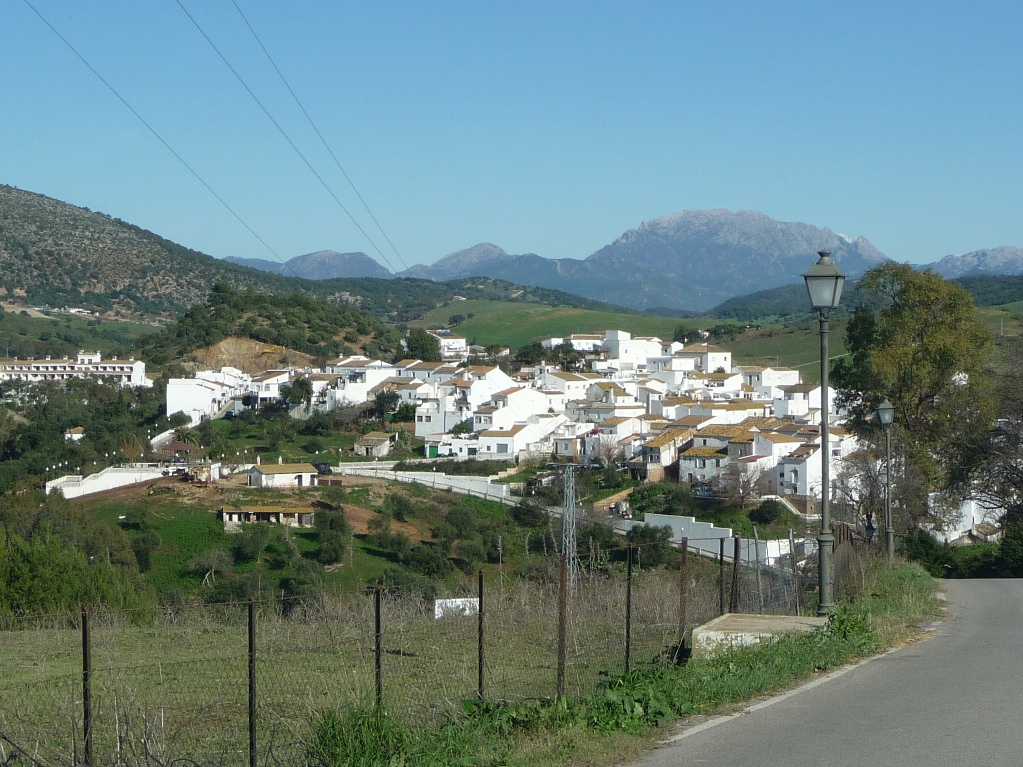 Algar. Andalusia, Spain